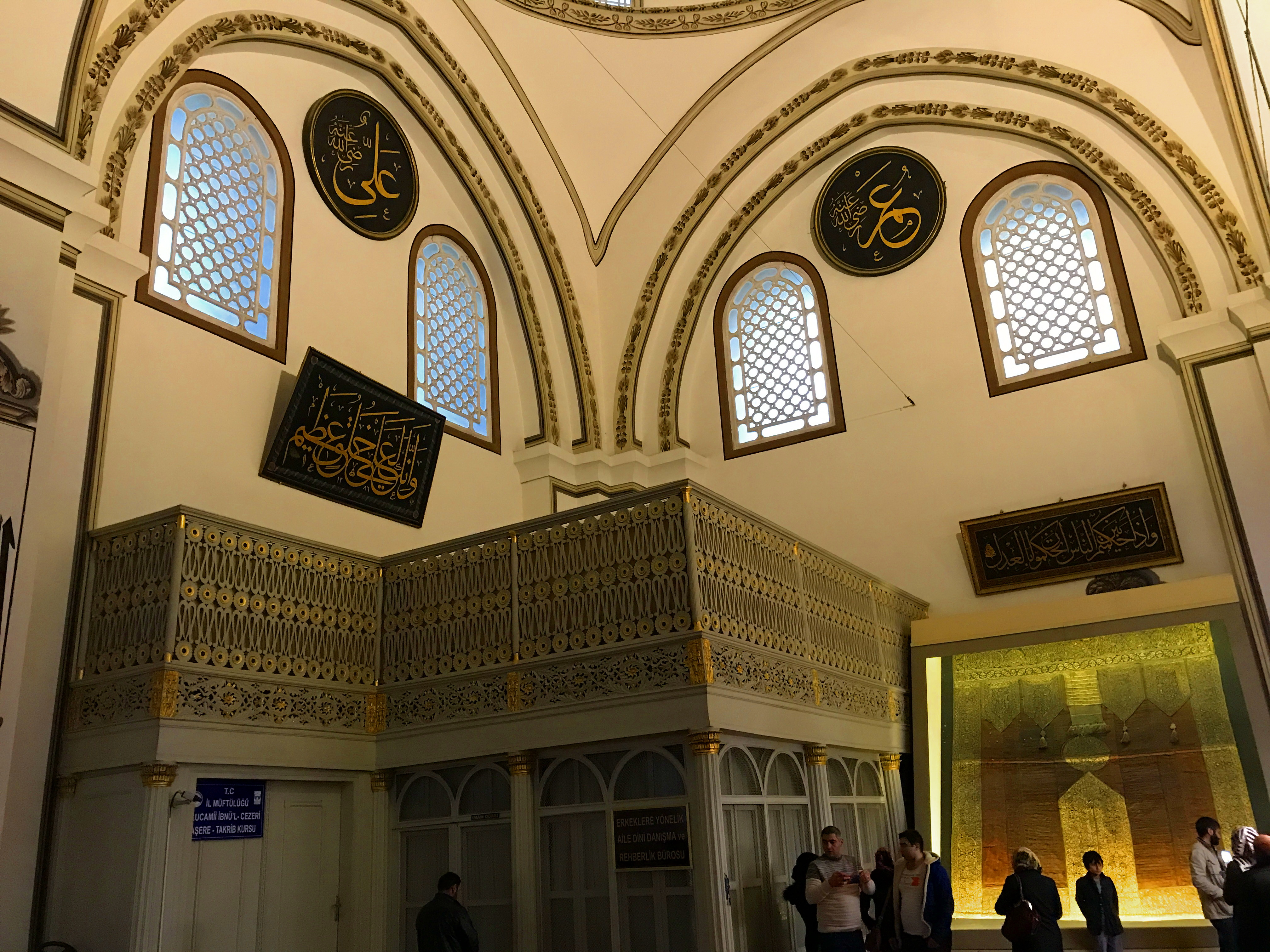 The Mamluk Kaaba Curtain in the Bursa Grand Mosque, Turkey.